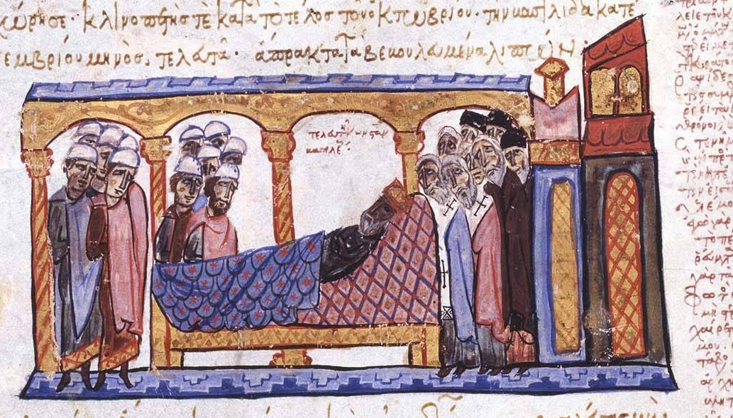 Deathbed of Constantine VII Porphyrogenitus